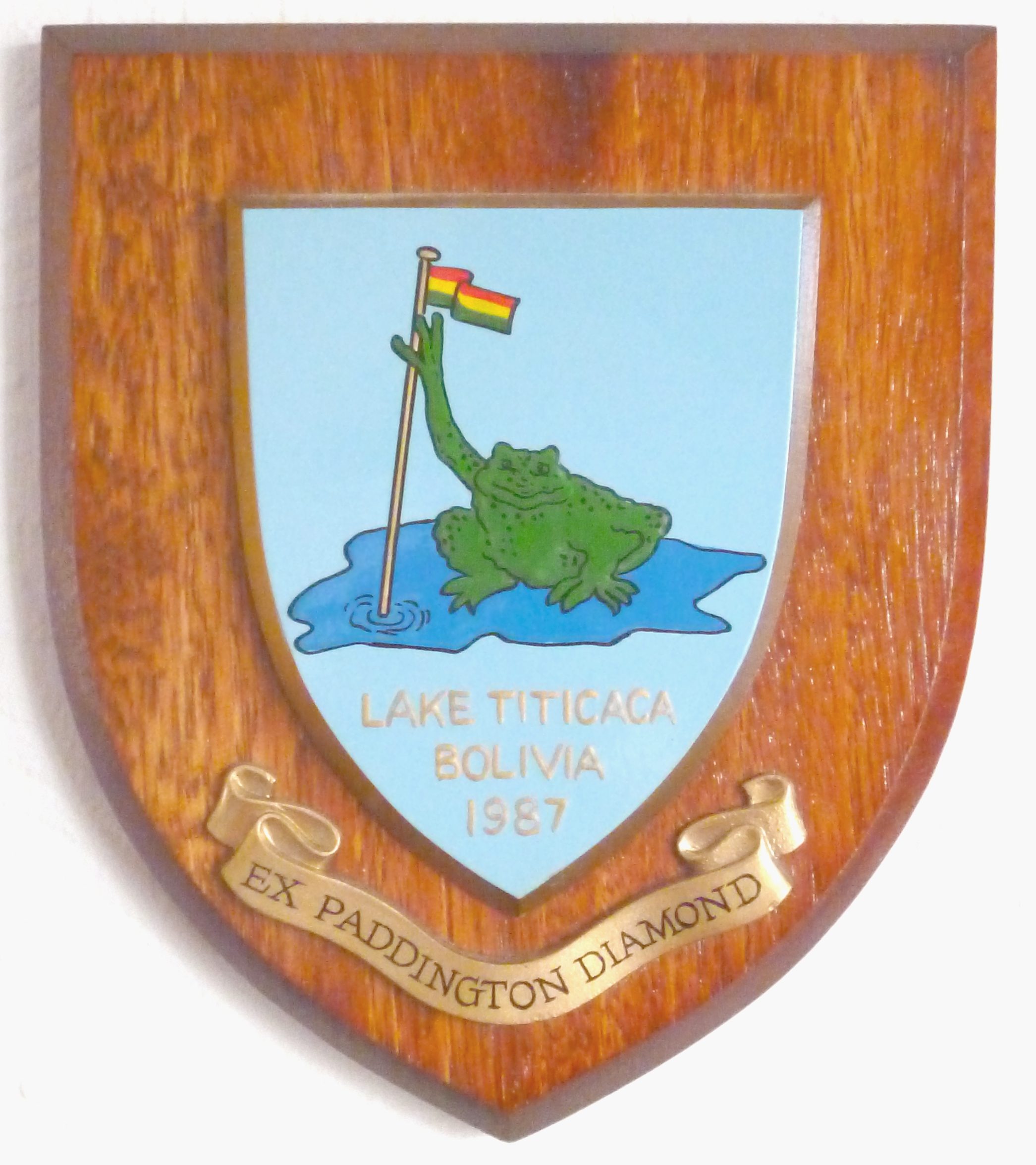 Photograph of the official wall plaque for Exercise Paddington Diamond, Bolivia, 1987